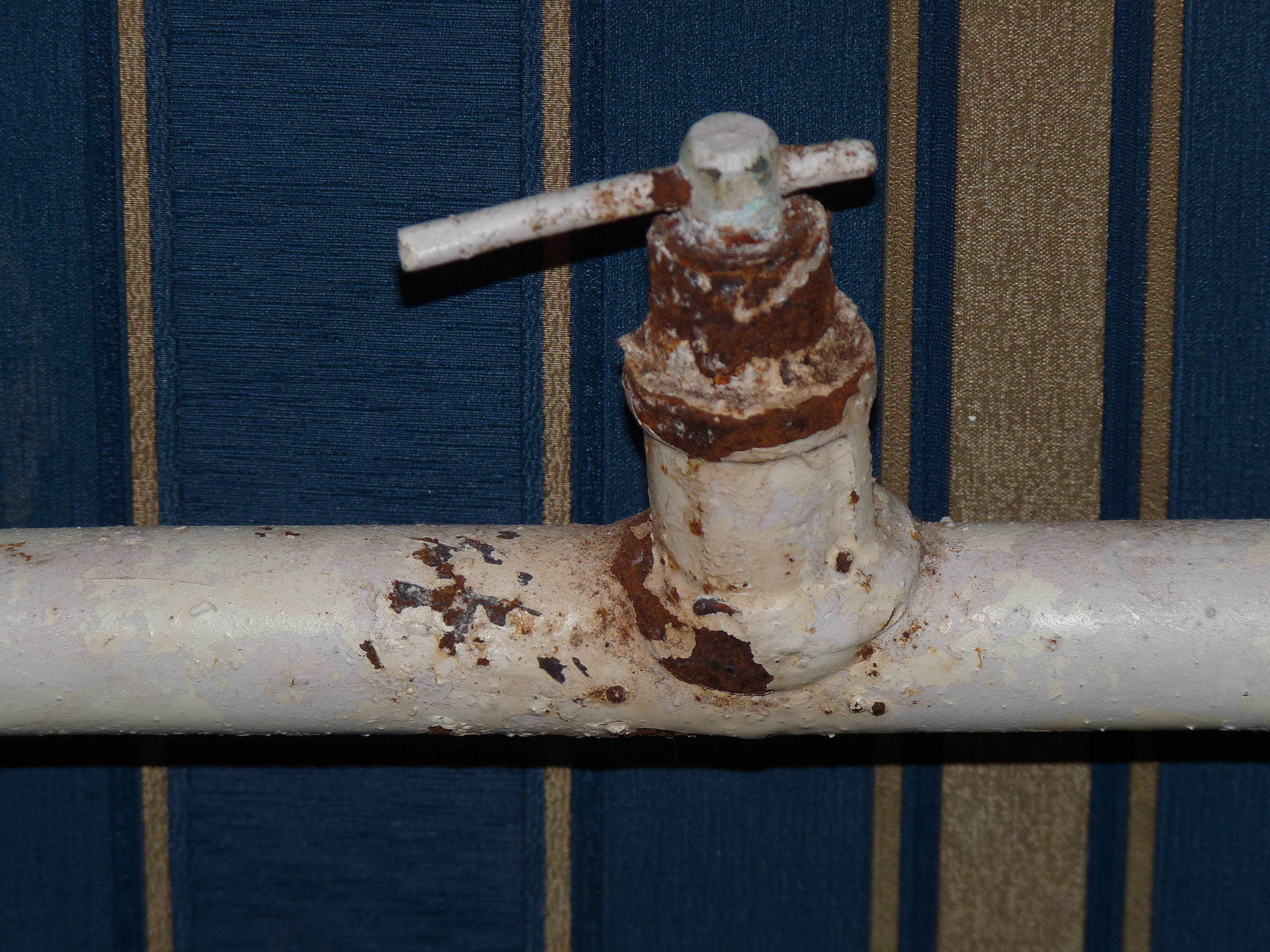 Central heating pipe